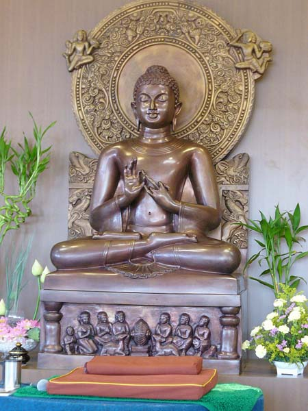 A replica of the Sarnath Buddha, depicting the Buddha giving the First Discourse. The image was cast in Thailand and is now in Poh Ern Shih Temple, Singapore